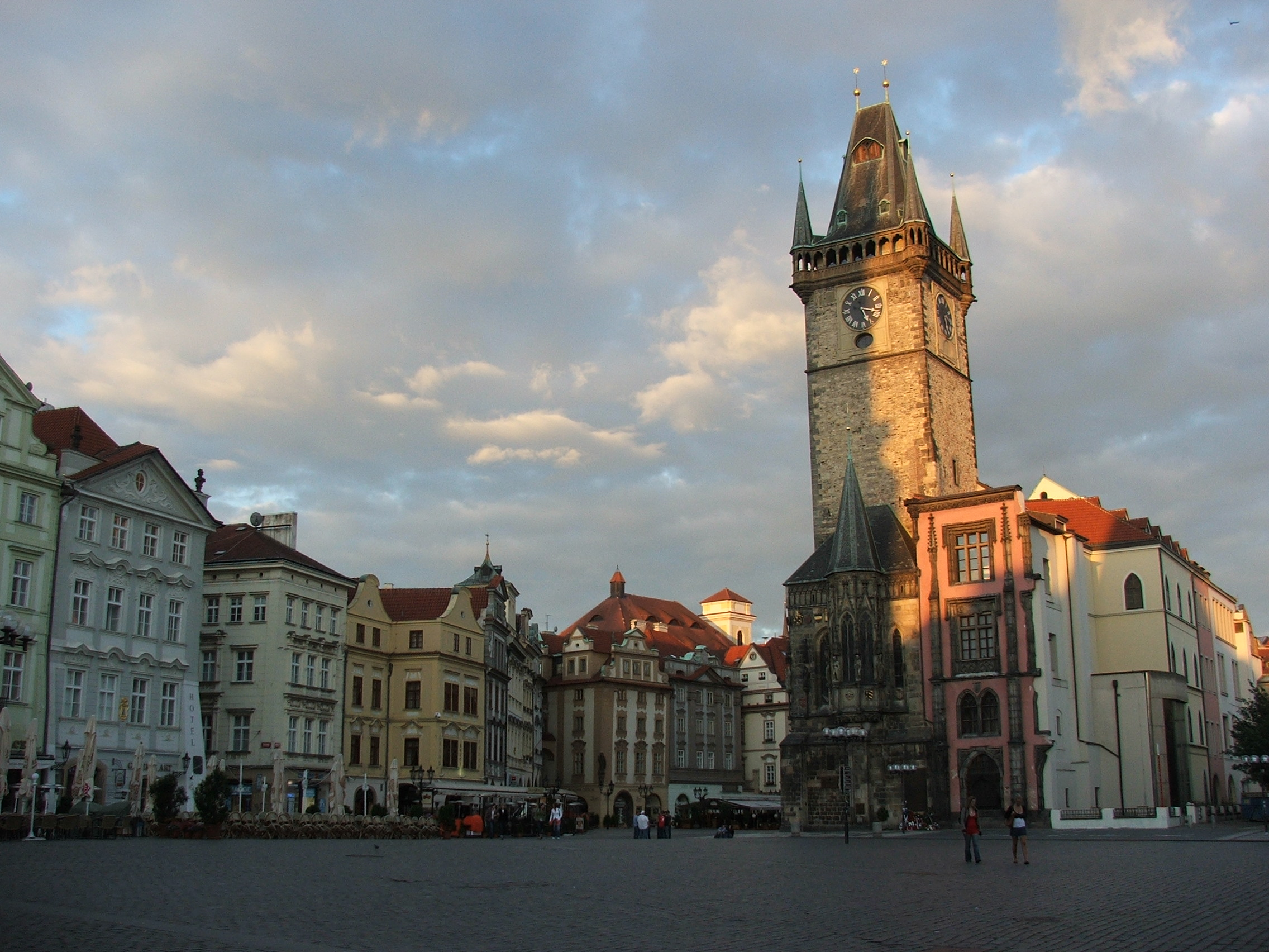 Old Town Square in Prague in the morning